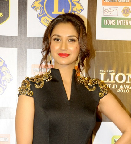 Nikita Dutta at 23rd SOL Lions Gold Awards 2016